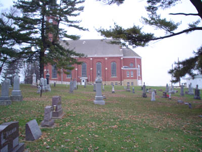 This is a photo of Saints Peter and Paul Catholic Church as seen from the church cemetery. I took this photo in December of 2003.